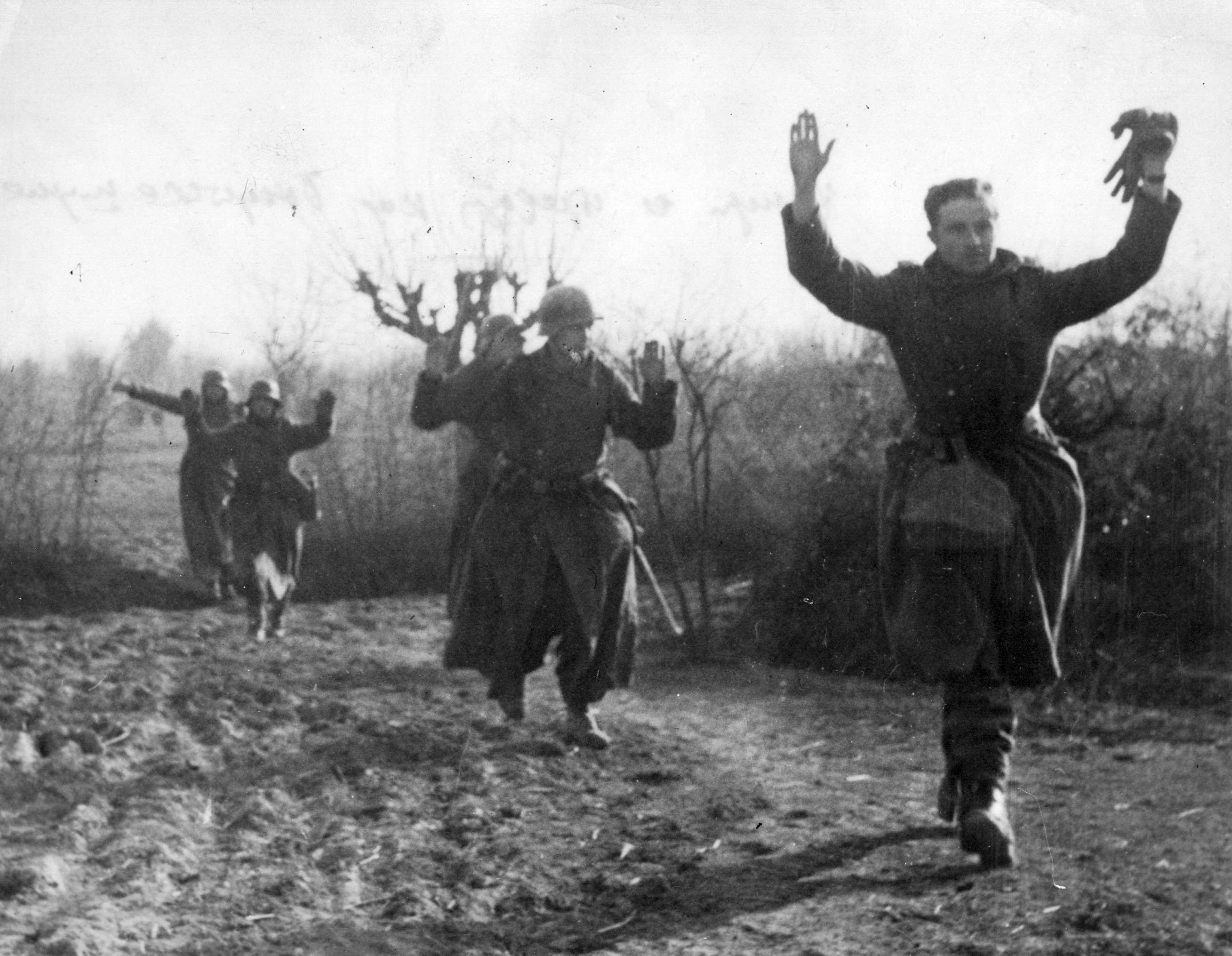 Zarobljavanje Nemaca neposredno posle proboja sremskog fronta, Bosutske šume, aprila 1945. godine.